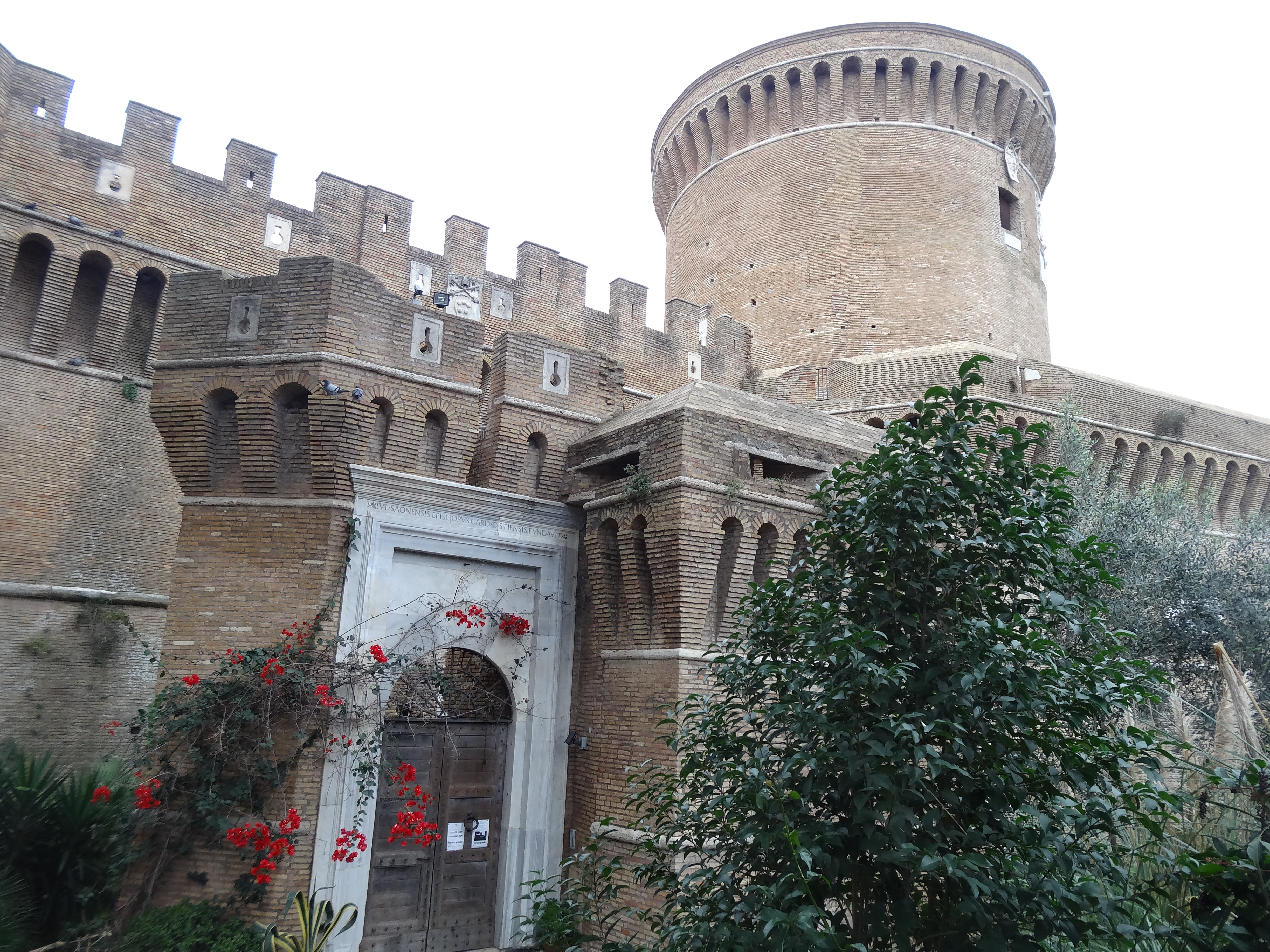 Castello di giulio II